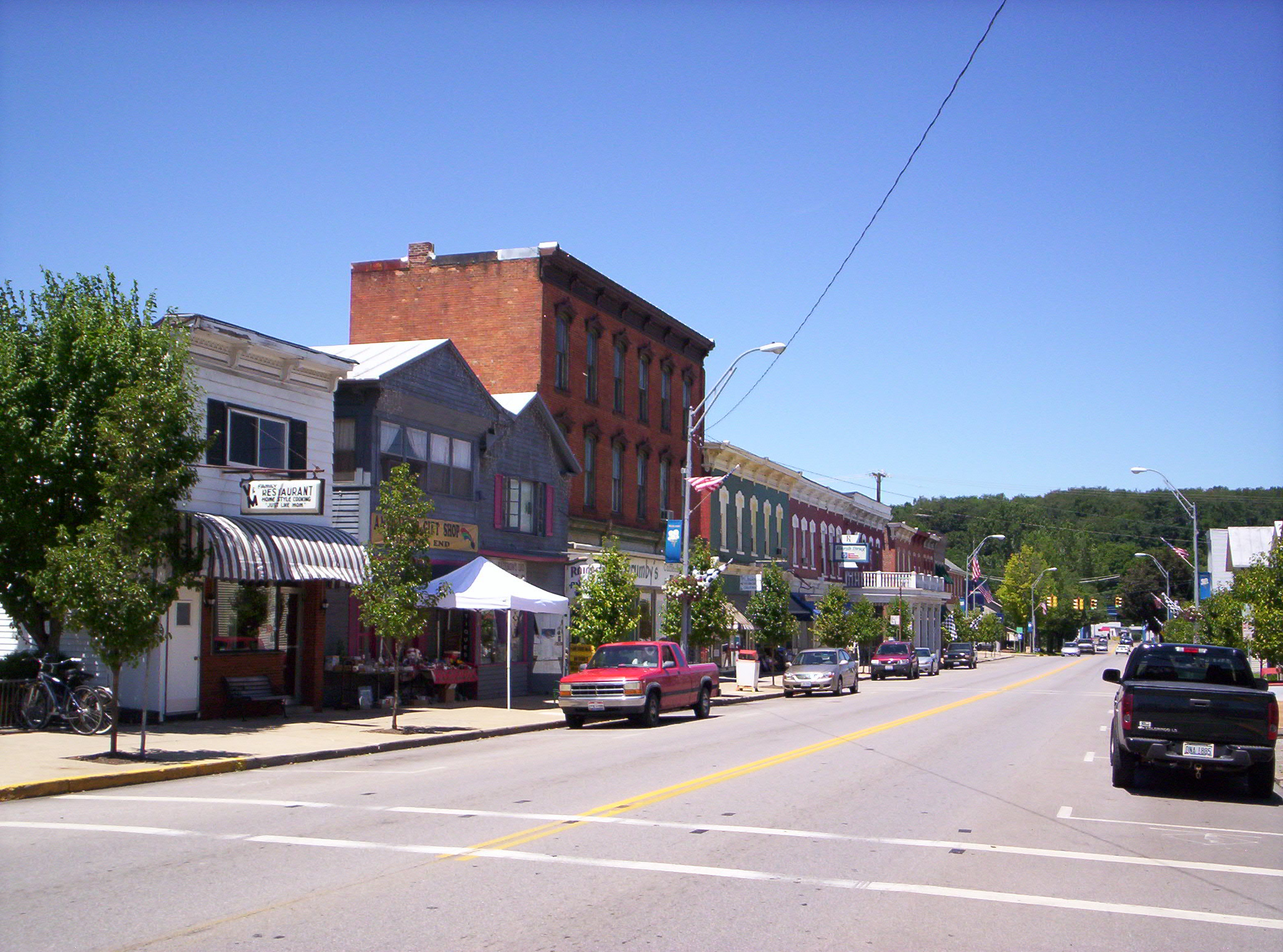 A view of downtown Bellville, Ohio on Main Street just north of the intersection of Church Street.